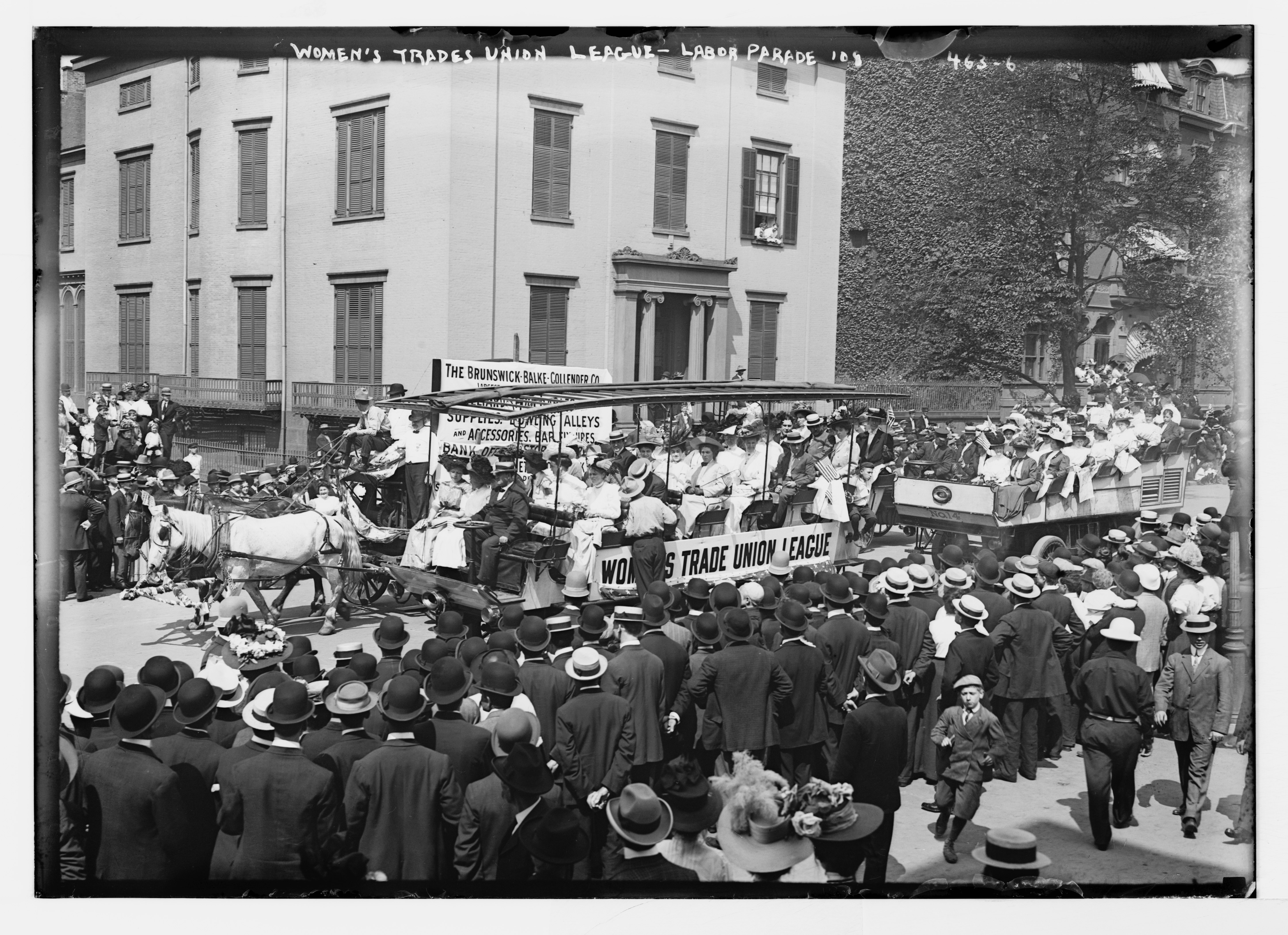 Title: Women's Trade Union League, Labor Parade '08 Abstract/medium: 1 negative : glass ; 5 x 7 in. or smaller.